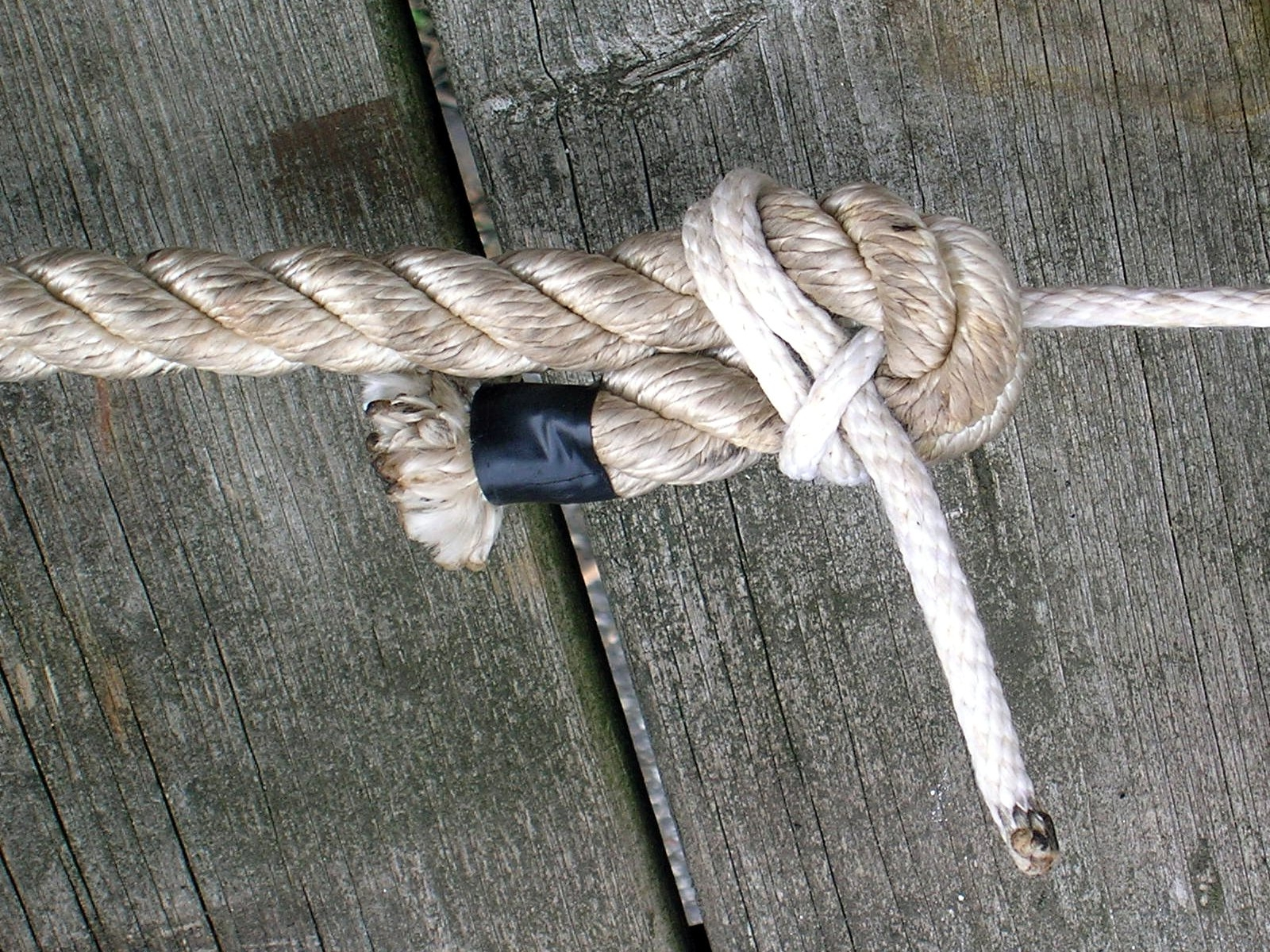 180 degree rotation of "Double sheet bend 2.jpg"